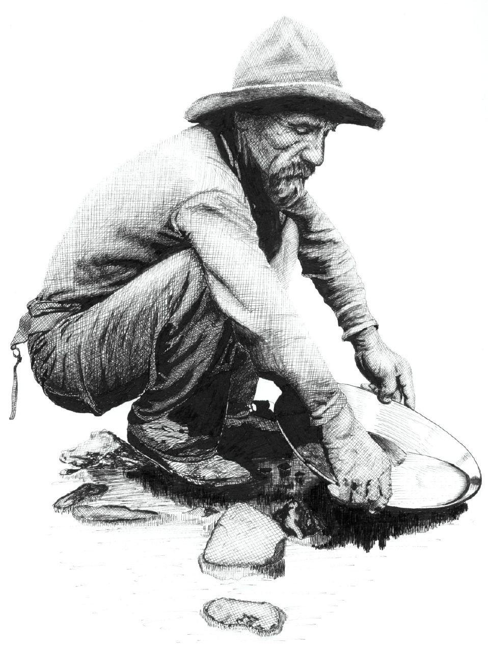 Prospector. Orginal text: Pen and ink illustration I did based upon a 100+ year old photograph of a prospector panning for gold. It appeared in a New Mexico history guide published by the New Mexico Santa Fe Trail National Scenic Byway Alliance. The original image is only 3 or 4 inches across. No pencil or charcoal. All shading is crosshatched ink - all freehand.